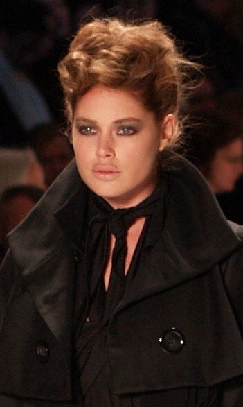 Doutzen Kroes modeling, Doo.Ri fall 2007 collection, New York Fashion Week